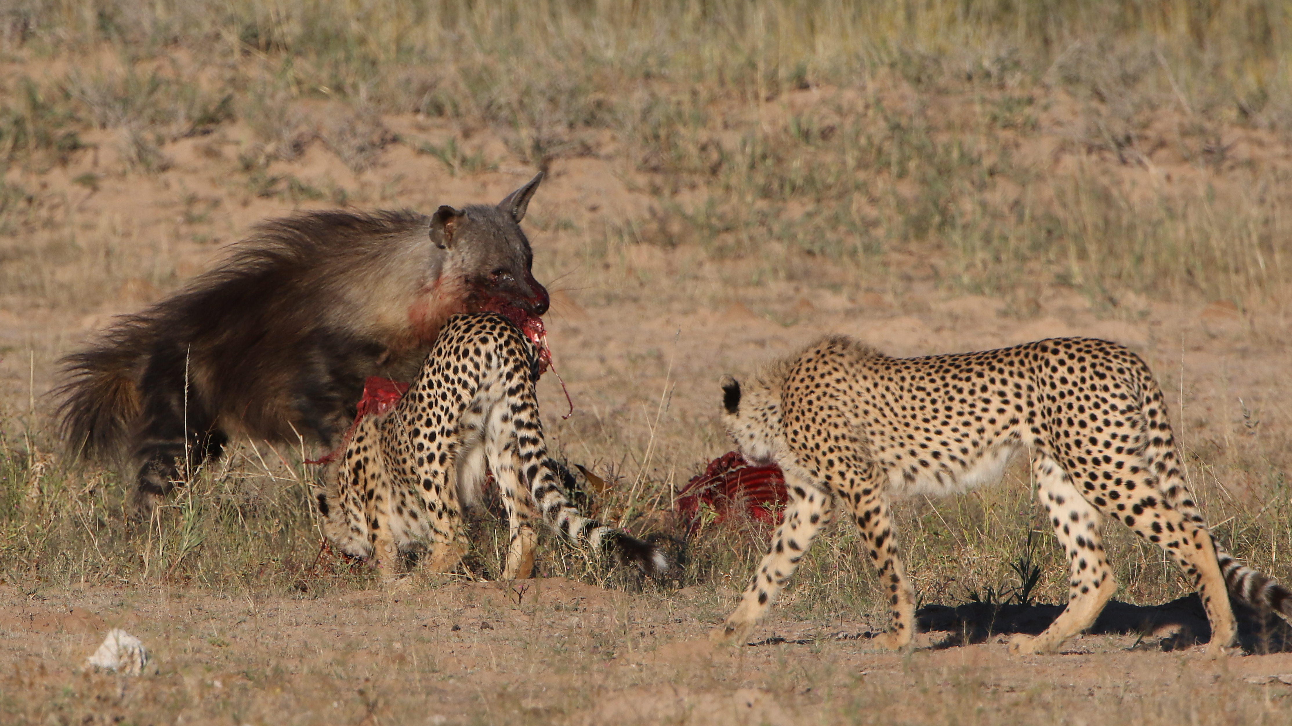 A brown hyena wandered down and joined them as they fed. It chewed the springbok in half, grabbed the back half, and carried it off. The cheetahs did nothing but look on with amazement. Maybe mamma cheetah was teaching her four cubs to watch out for hyenas. After it left, the jackals started to move in, but they were wary of the cheetahs, which continued feeding on the remaining half. Then, all five of them popped up together, and there was the hyena running in at a brisk pace. It grabbed the other half, and though it could barely lift it, it carried it off into the bushes. The cheetahs just looked dejected, and the jackals moved in and cleaned up the intestines and other nasty bits. The cheetahs came back, ate whatever was left and wandered off. About 2 hours later I saw them at the water hole nearby. Two days later we saw them again, hunting much further south down the Aub.